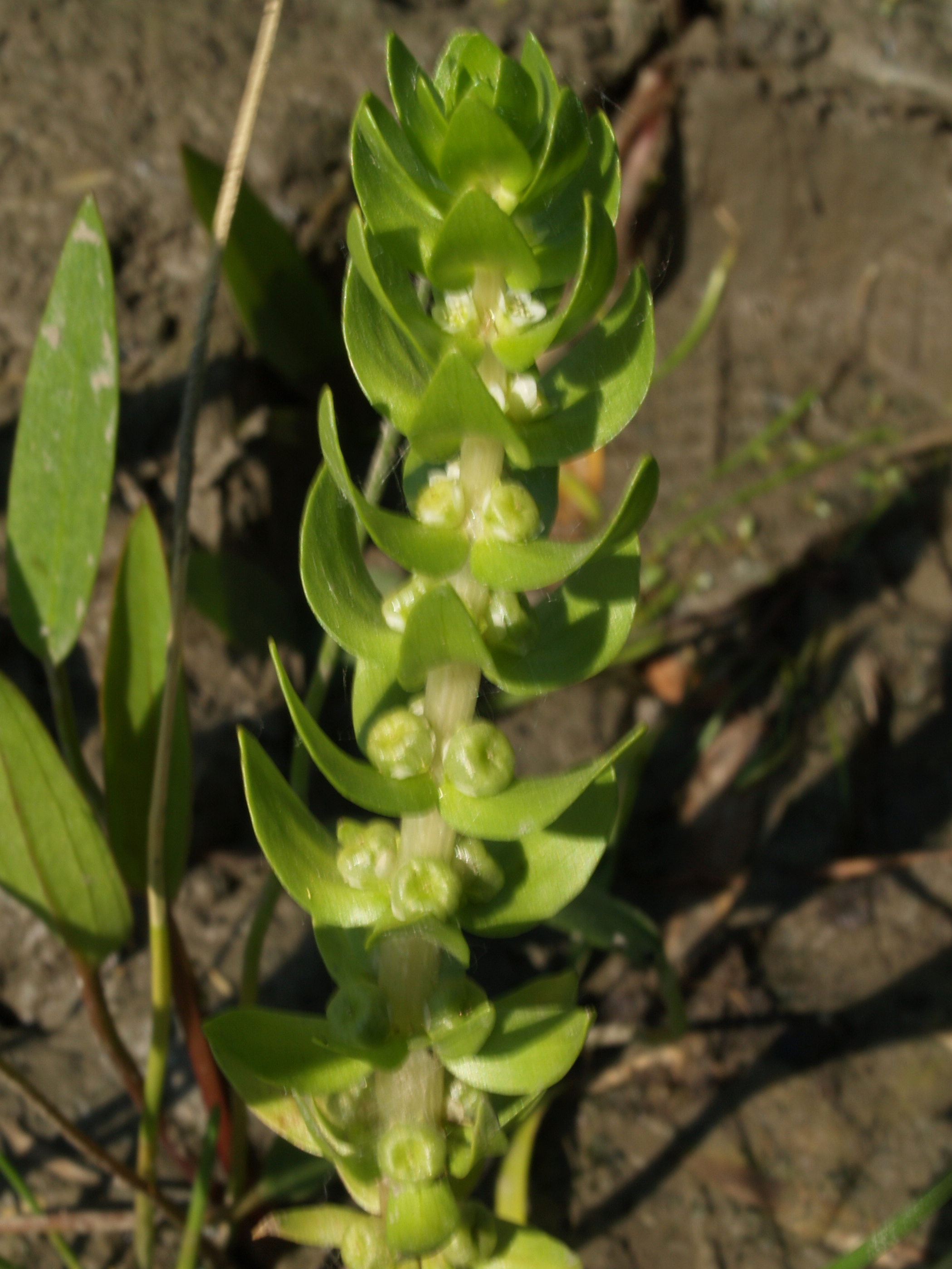 Yu Ito (2012) Aquatic plant surveys in northern Europe. Bulletin of Water Plant Society, Japan 98: 45-50.